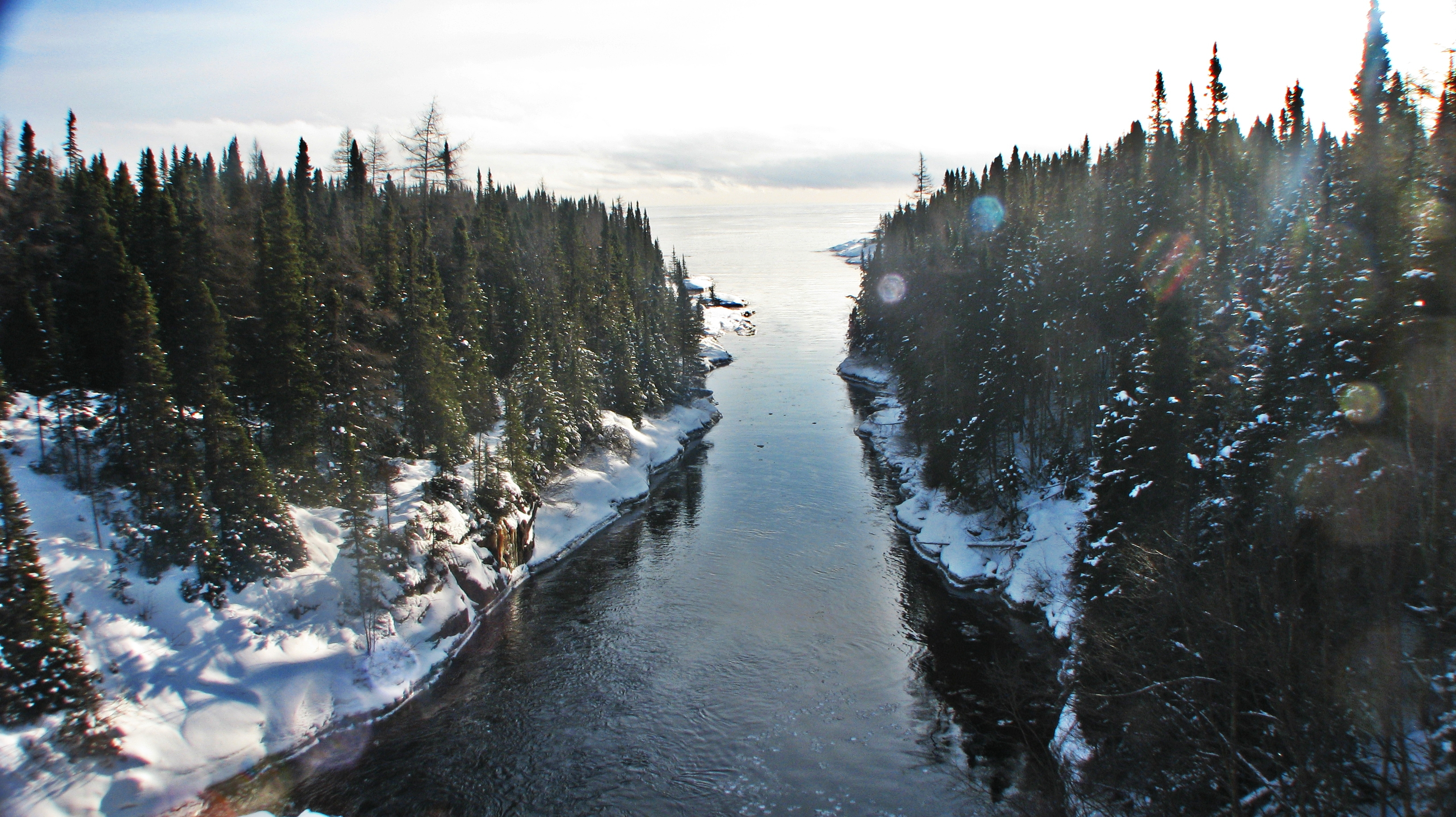 Matamec river, Quebec, Canada (not to confuse with Matamek river 100km farther east)